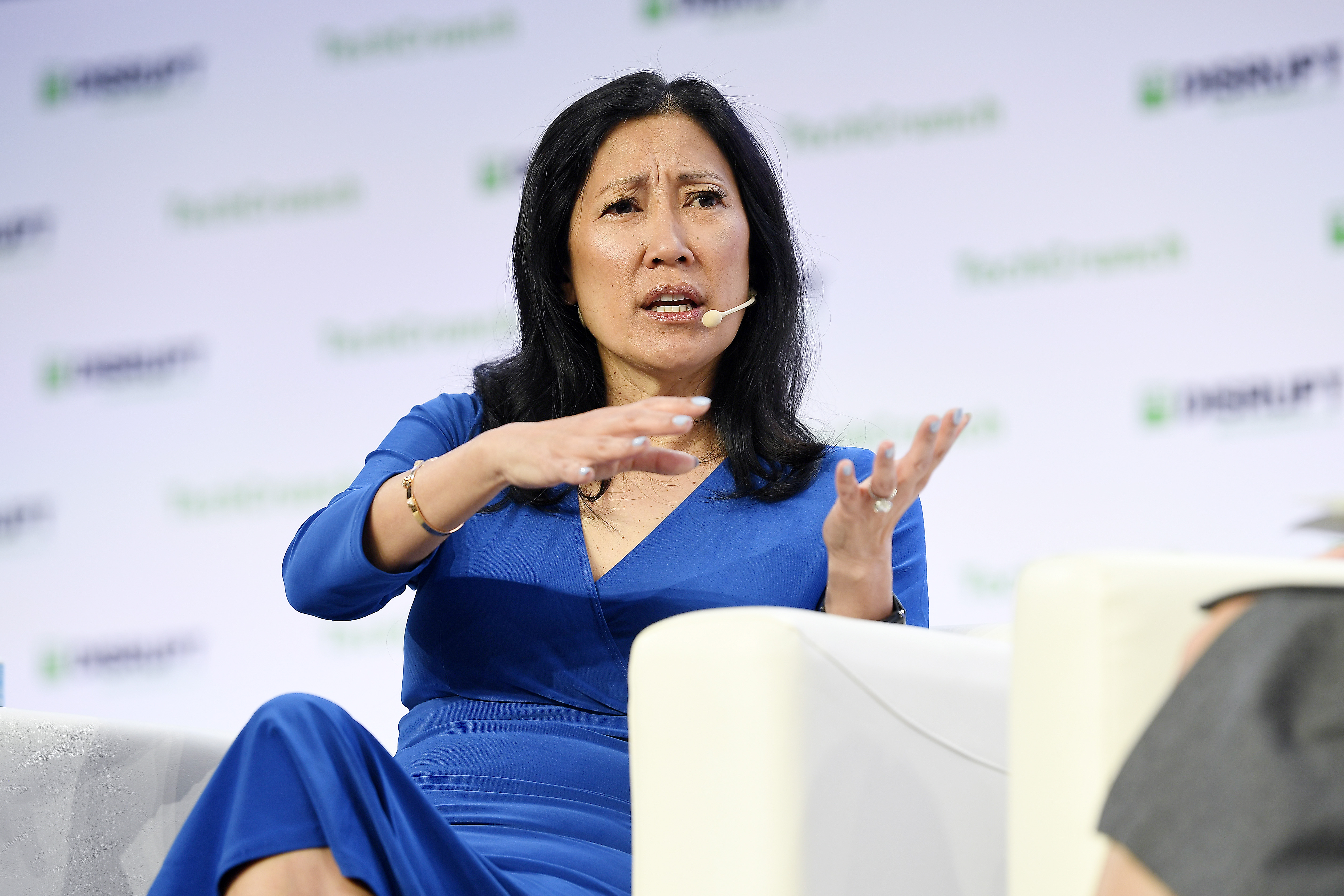 SAN FRANCISCO, CALIFORNIA - OCTOBER 04: aCrew Capital Founding Partner Theresia Gouw speaks onstage during TechCrunch Disrupt San Francisco 2019 at Moscone Convention Center on October 04, 2019 in San Francisco, California. (Photo by Steve Jennings/Getty Images for TechCrunch)